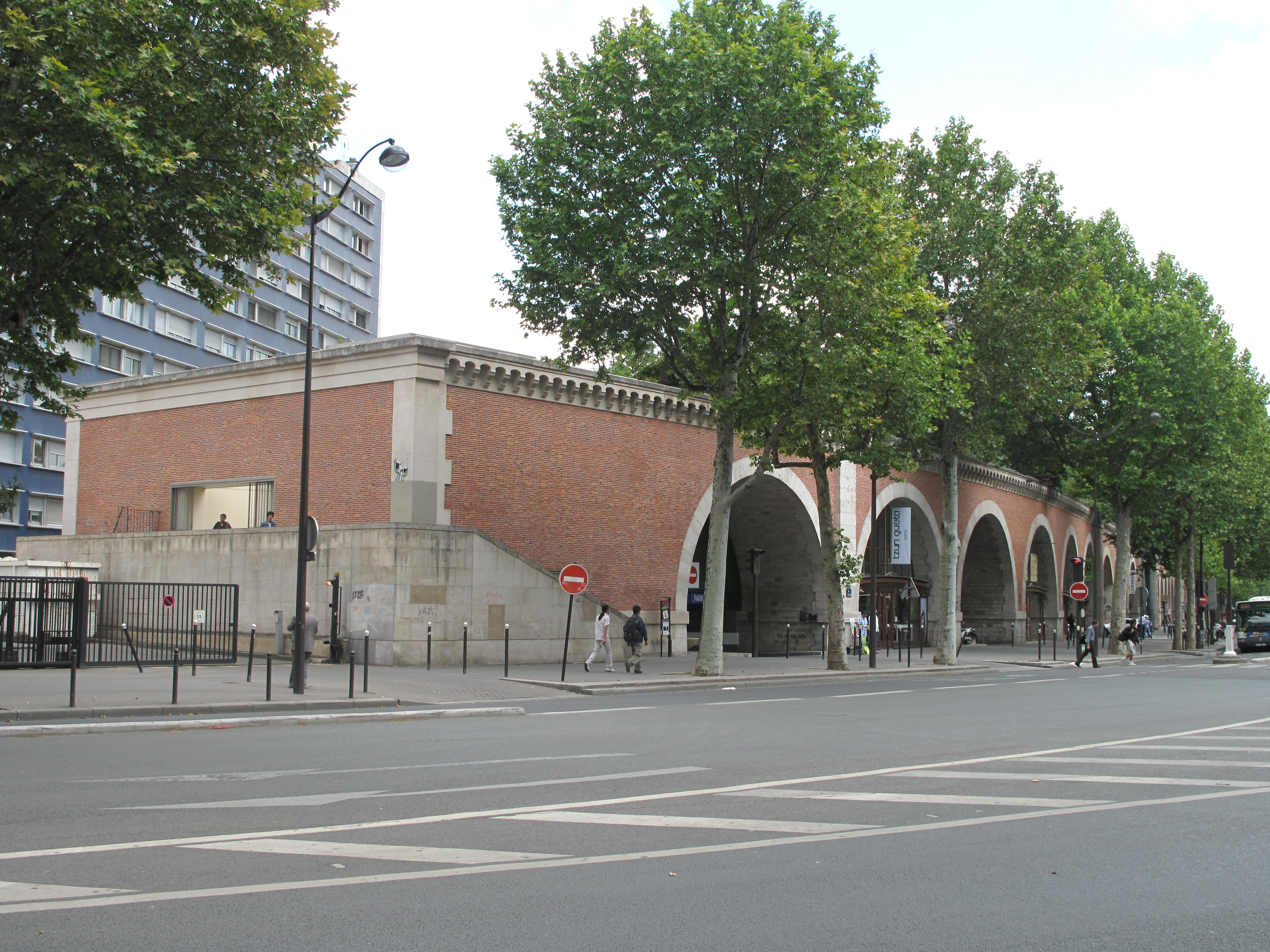 Start of the viaduc des Arts and of the promenade plantée : avenue Daumesnil, Paris 12th arrond. The part between here and the start of the former railway line at the former gare de la Bastille has not been kept.